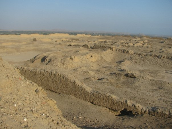 Photograph of walls at Pacatnamu archaeological site, Peru. Taken in July 2009.